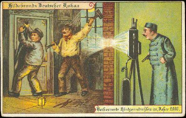 Germany in 2000 year (XXI century). Criminal police with pre-TV (Improved X-Ray). Germany, Hildebrand Factory chocolade.